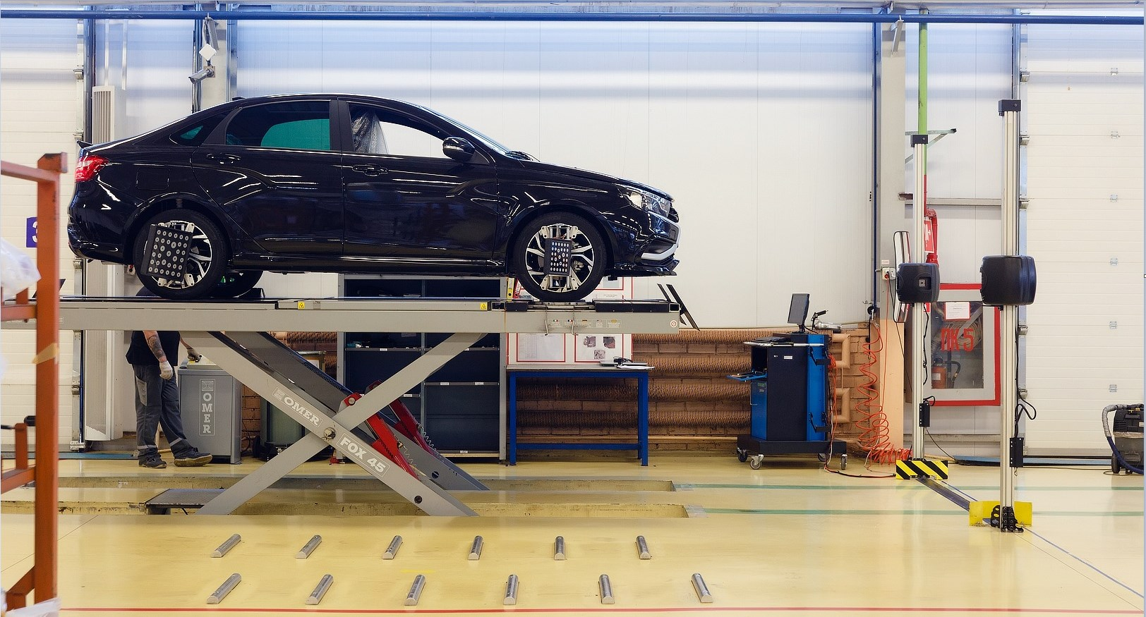 LADA Vesta Sport, Wheel alignment